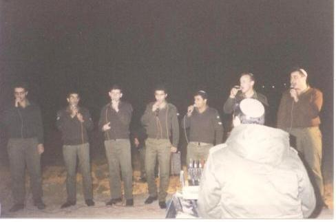 The IDF rabbinite choir singing before soldiers in Jabalya during first intifida